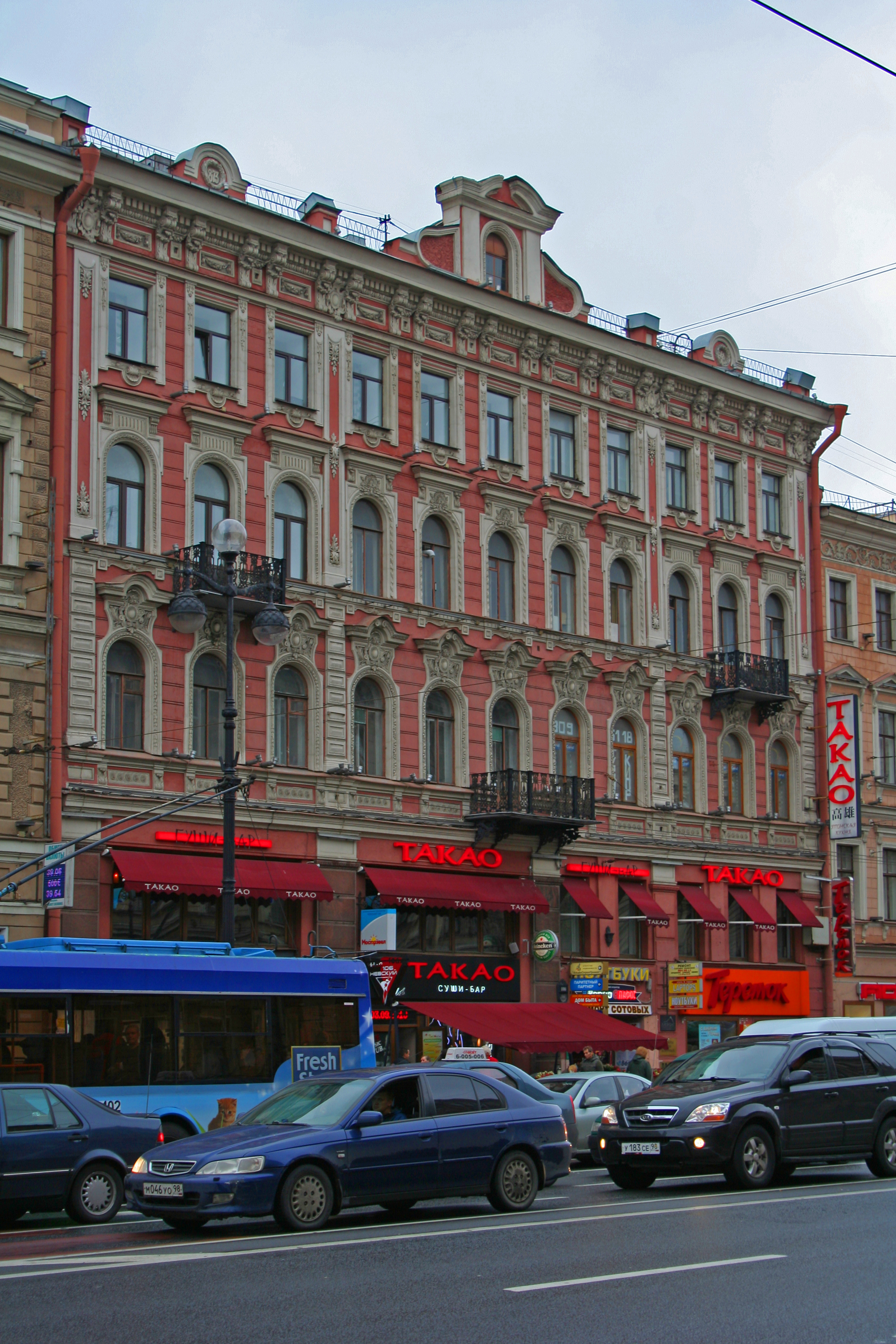 The Nevsky Prospekt in Saint Petersburg. House number 106.